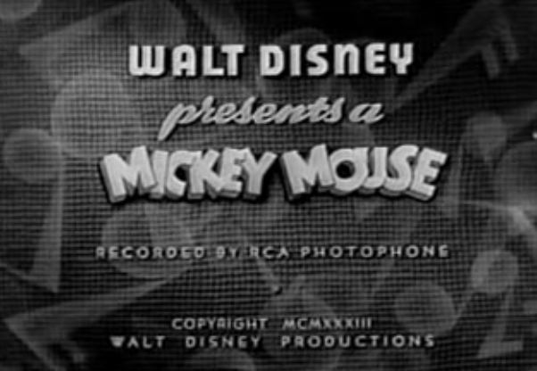 Title card of the Animated Short Subject "The Mad Doctor"